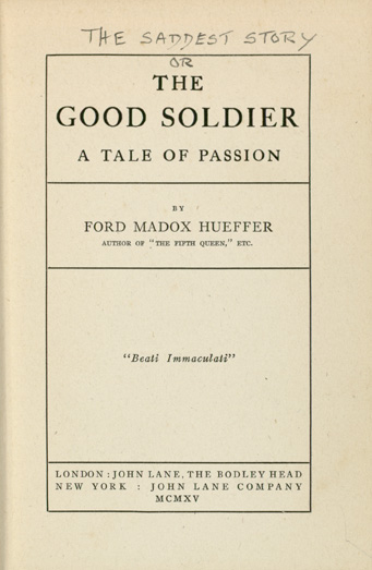 Image of the cover of a first edition of The Good Soldier by Ford Madox Ford